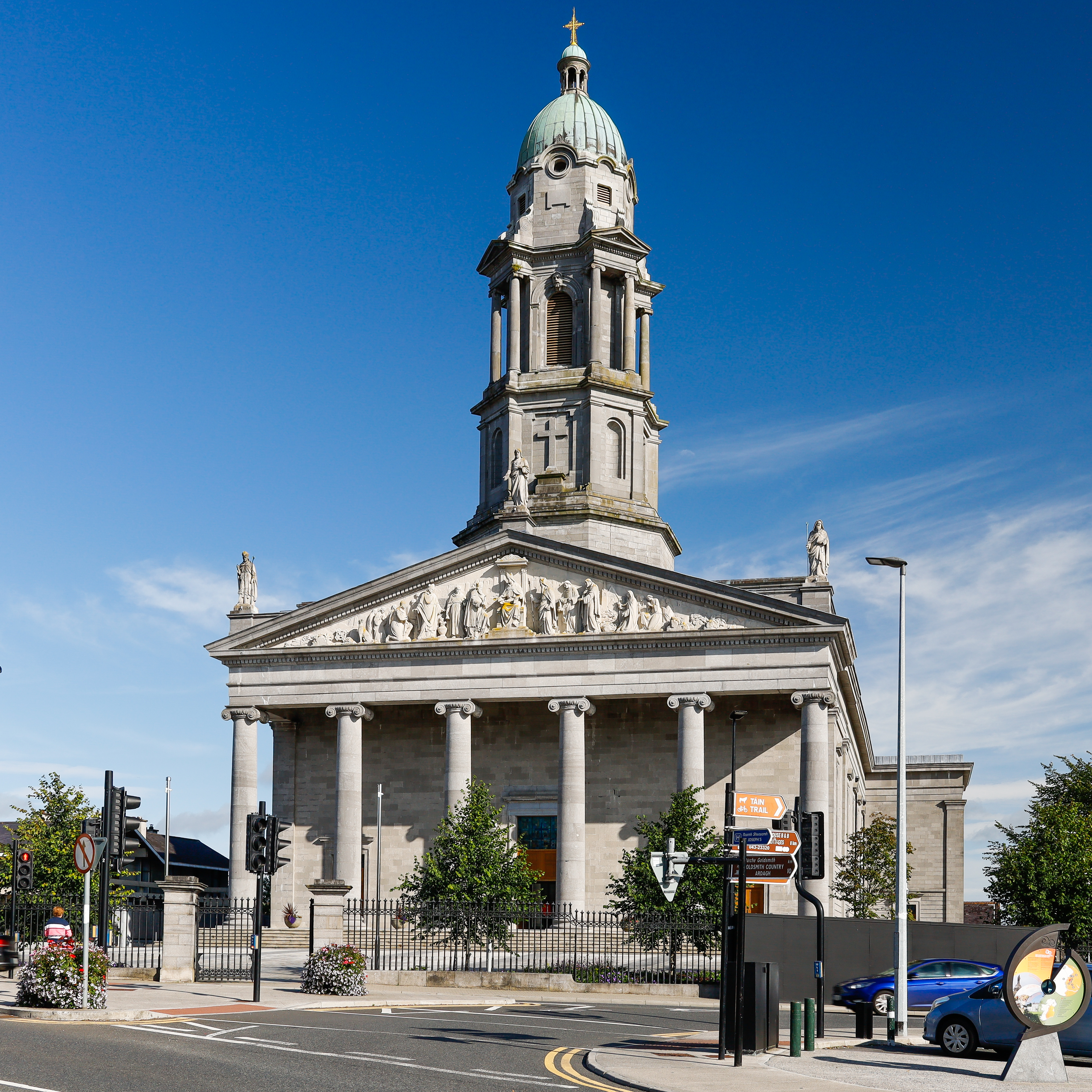 St. Mel's Cathedral as seen from Dublin Road.)